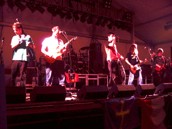 Gomeru in concert